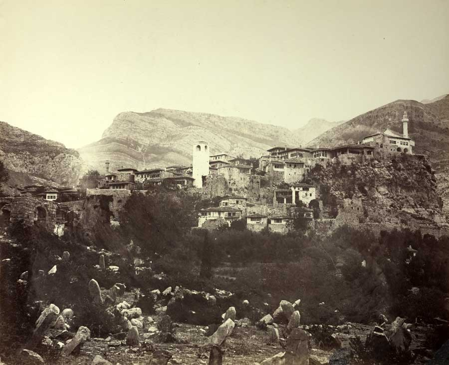 Bar (Antivari): taken in the rain. ca. 25 August 1863.